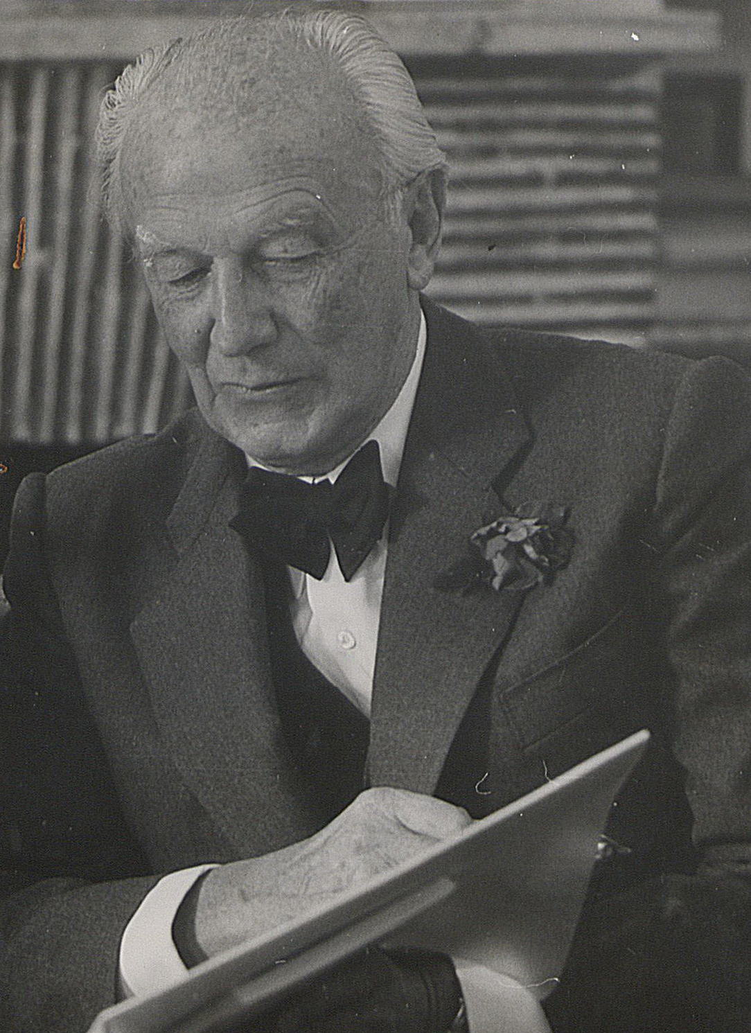 In 1901 Paul Bonatz finished his architectural education at Munich Technical University and became the assistant of Theodor Fischer at Stuttgart Technical University. In 1908 he took Fischer’s seat. Bonatz’s architectural understanding and style was inspired by Fischer and tended towards classicisim. Bonatz improved his principles in a modern way and created a refined monumentalism using simple shapes. This style can be seen in his early projects like the Hannover City Hall and Stuttgart Terminal, as well as his bridge designs of the 1930s. He was a leader and supporter of the Second Nationalist Architecture style while in Turkey in the 1940s and took part in jury committees for competitions including those of Anıtkabir and İstanbul Radio House. Bonatz also taught at ITU Architecture Faculty between 1946 and 1955, and is renowned for important projects such as the Saraçoğlu Houses and the opera building in Ankara. SALT Research, Kemali Söylemezoğlu Archive Paul Bonatz, 1901’de Münih Teknik Üniversitesi’nde öğrenimini tamamladıktan sonra, Stuttgart Teknik Üniversitesi’nde Theodor Fischer’in asistanı olarak çalıştı ve 1908’de onun yerini aldı. Mimari anlayışı, Fischer’in yanında klasisizm doğrultusunda şekillendi; Bonatz, bu ilkeleri modernleştirerek uygulamayı sürdürdü. Hannover Kent Salonu ve Stuttgart Garı (1917) gibi büyük ölçekli yapılarında gözlenen rafine anıtsallık, 1930’larda tasarladığı köprülerde de kendini gösterdi. Türkiye’de bulunduğu 1940’larda, İkinci Ulusal Mimarlık akımını destekledi. 1945-1955 yıllarında İTÜ Mimarlık Bölümü’nde ders veren ve Anıtkabir ile İstanbul Radyoevi gibi projelerde jüri üyeliği yapan Bonatz, Saraçoğlu Memur Evleri ve Ankara Opera Sahnesi gibi önemli projelere imza attı. SALT Araştırma, Kemali Söylemezoğlu Arşivi